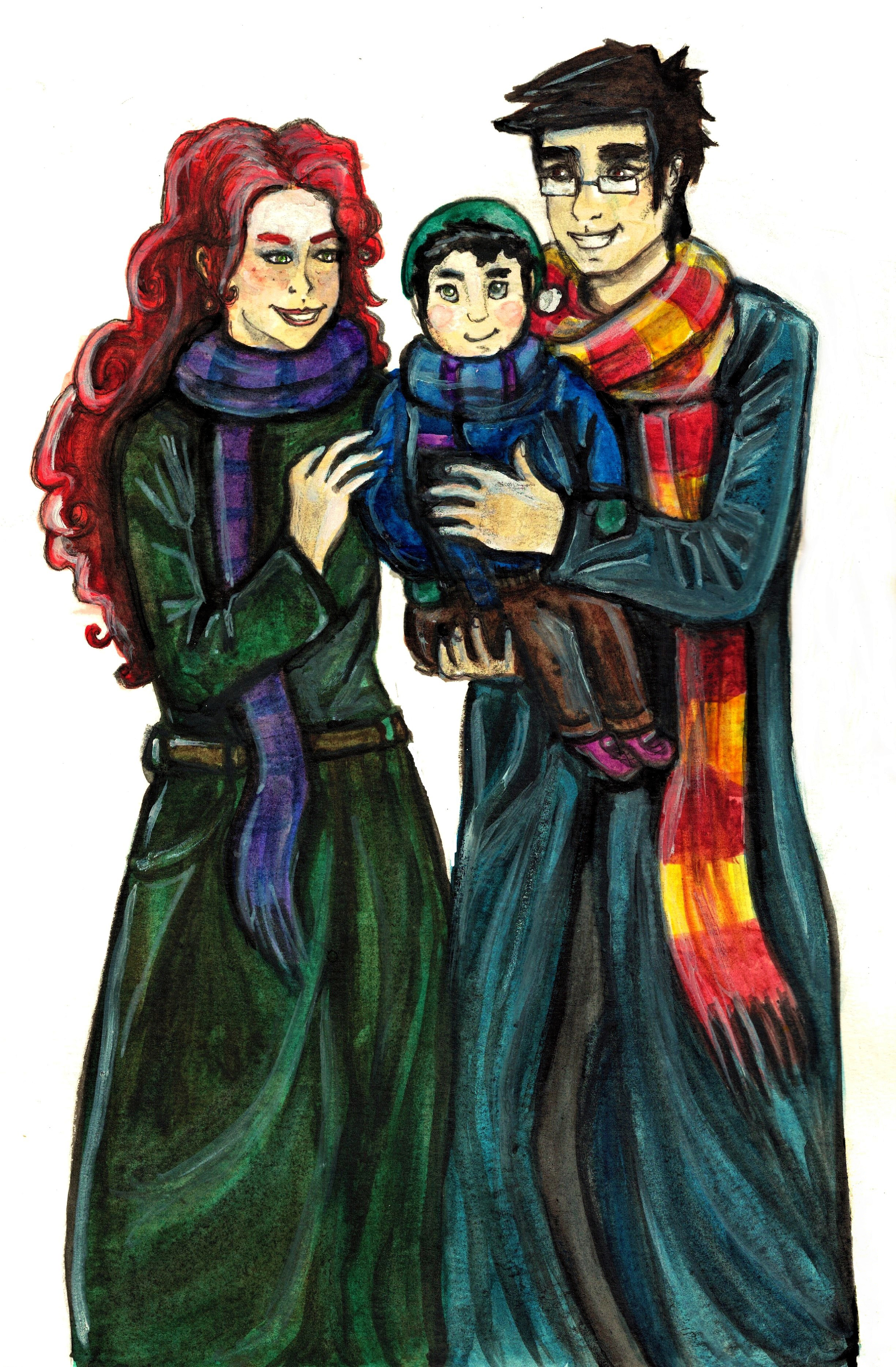 Fan art representing the whole Potter family, Lily, James and Harry Potter, made with charcoal, acrylic and watercolours by Mademoiselle Ortie aka Elodie Tihange This drawing is not affected by any copyright infringement. See the discussion that previously decided on its conservation.